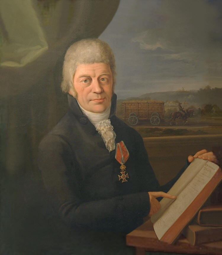 Portrait of Franz Josef von Gerstner with the Leopold order